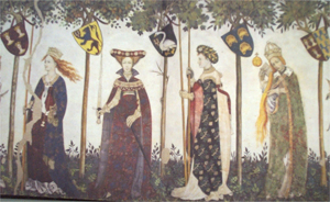 Frescoes were painted by anonymous master craftsmen